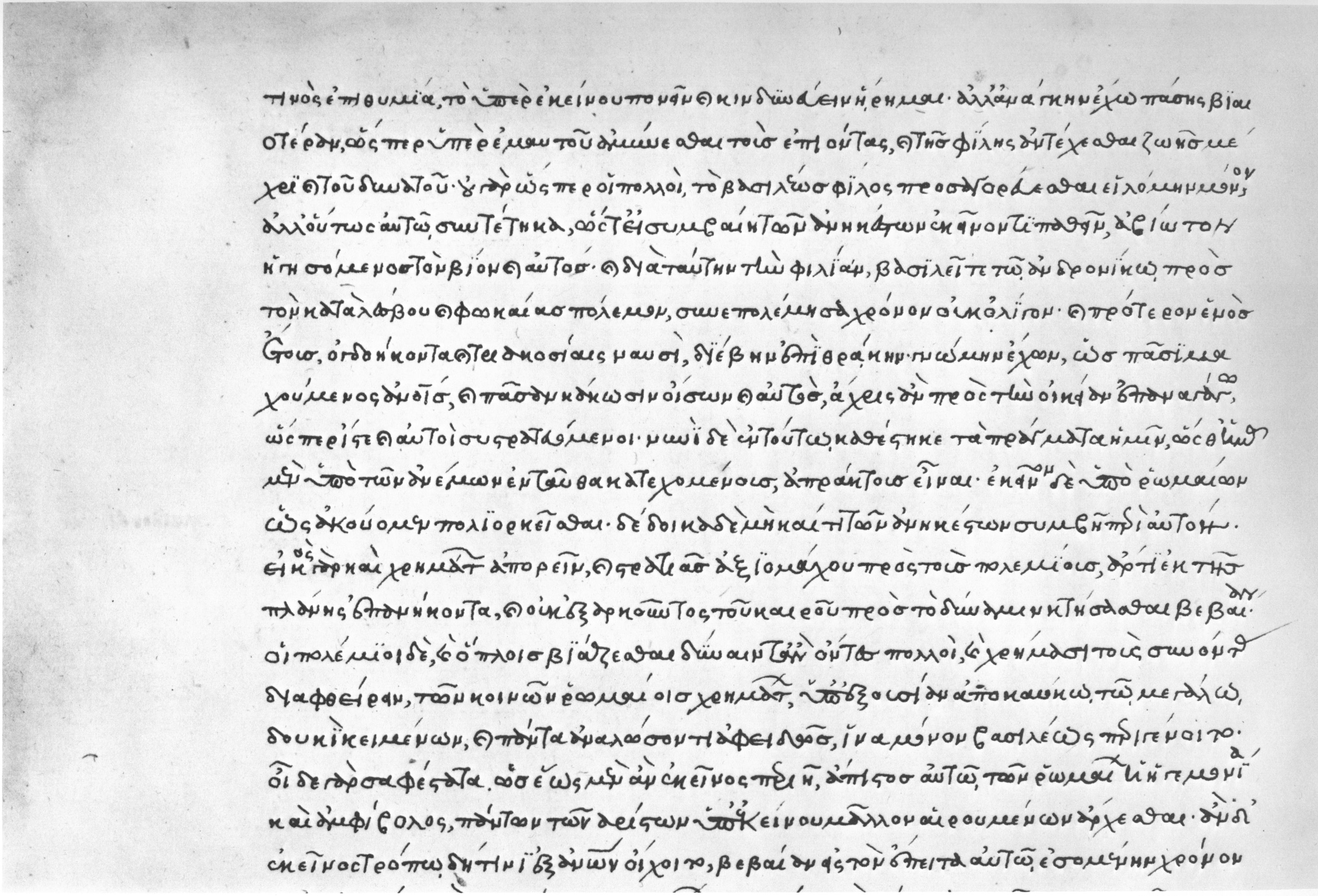 John VI Kantakouzenos, History, in ms. Florence, Biblioteca Medicea Laurenziana, Plut. 9,9, fol. 235v.